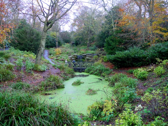 The Dene, Saltwell Park A landscaped wooded valley with several bridges and attractive waterfalls with this bright green lily pond at the bottom